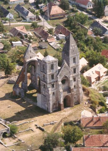 Zsámbék, temple ruins, Hungary, aerialphototgraphy